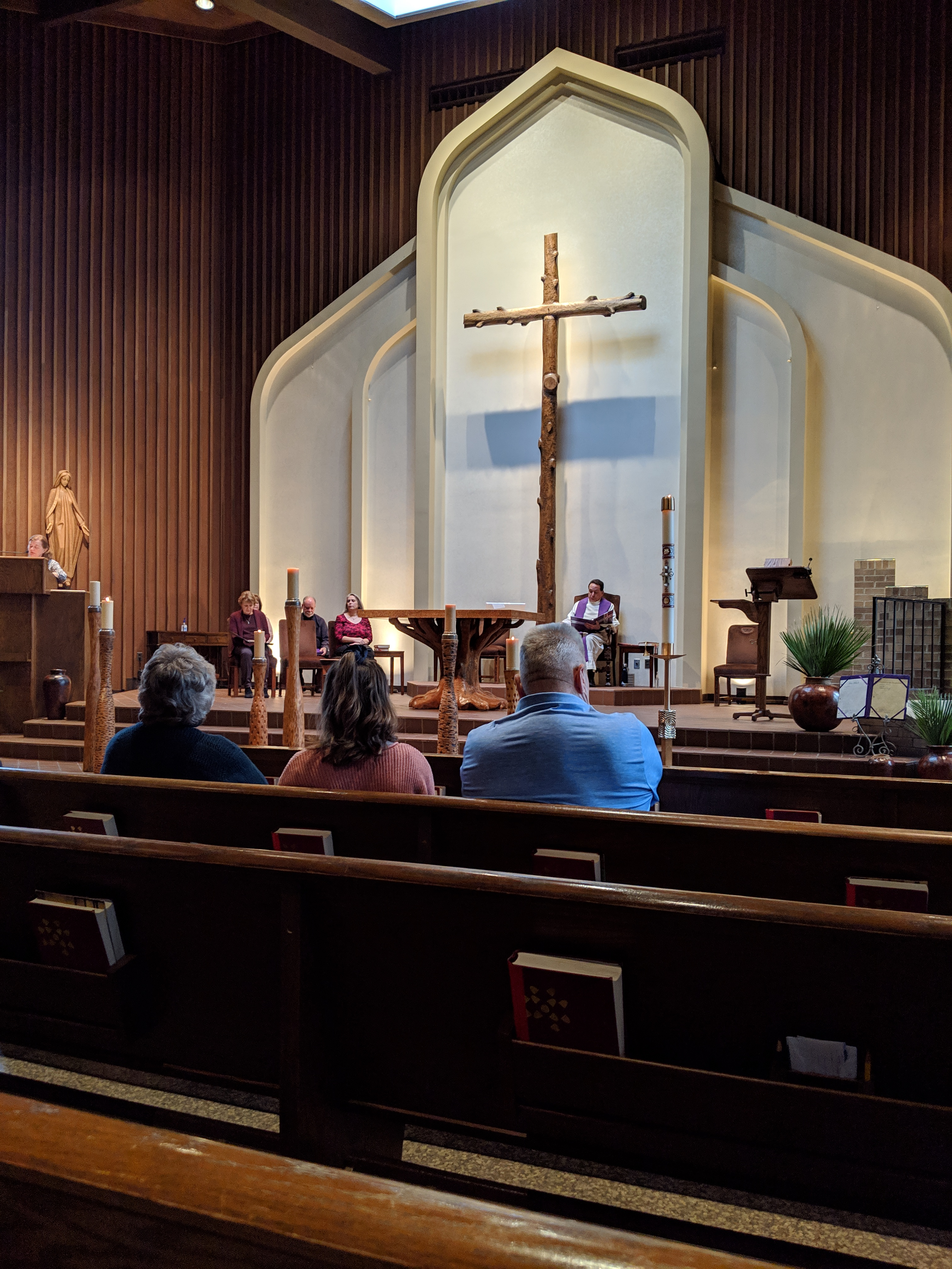 The image depicts a Tenebrae service at a Roman Catholic church in the United States held on Spy Wednesday, 17 April 2019.